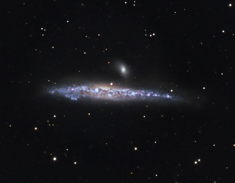 NGC 4631 with the satellite galaxy NGC 4627